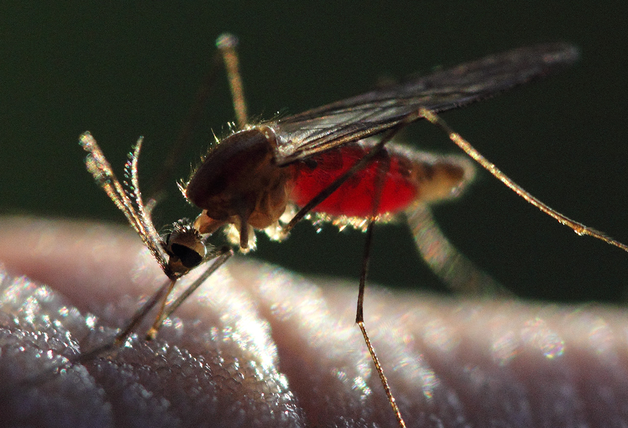 This is an Anopheles mosquito that is engorged with human blood (my own!) Taken in an area of damp woodland in County Durham, UK